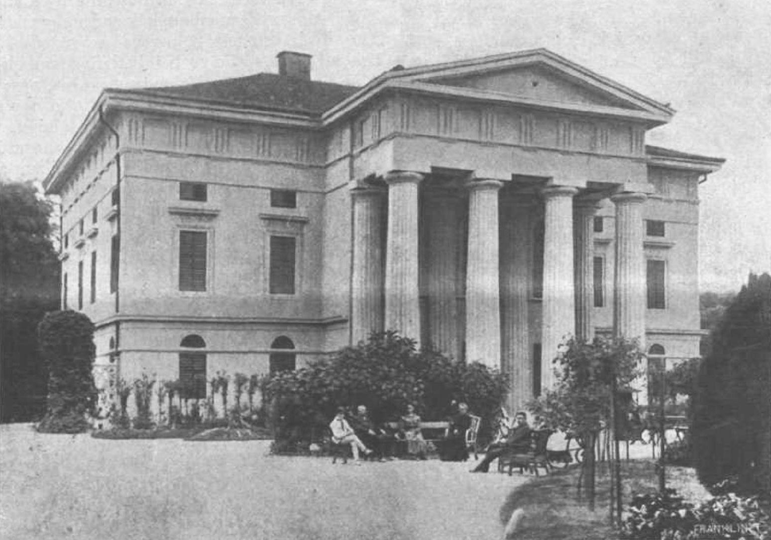 Marczibányi Palace in Turnu. Demolished in 1938.